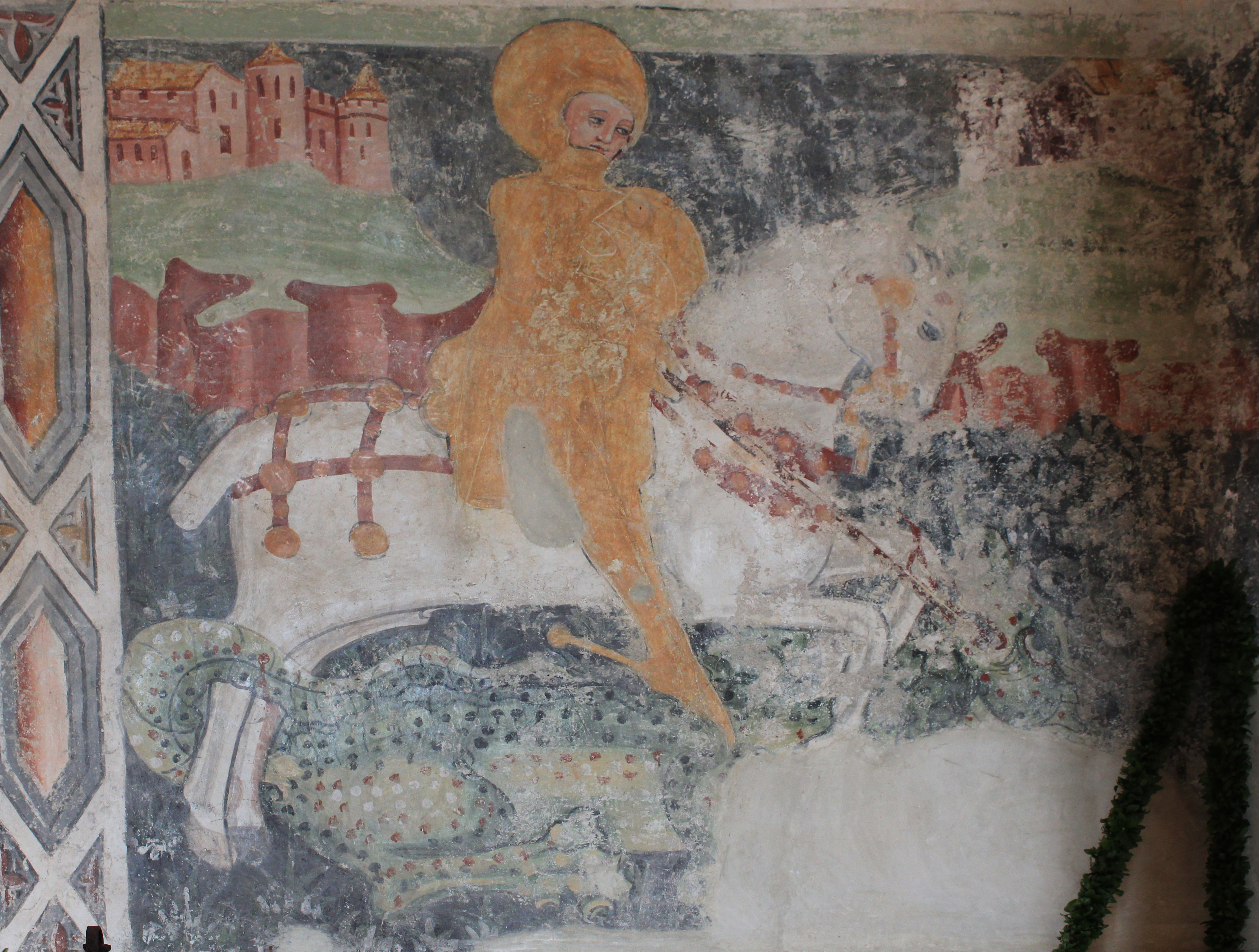 Church of Wakendorf in the community of Globasnitz- fresco